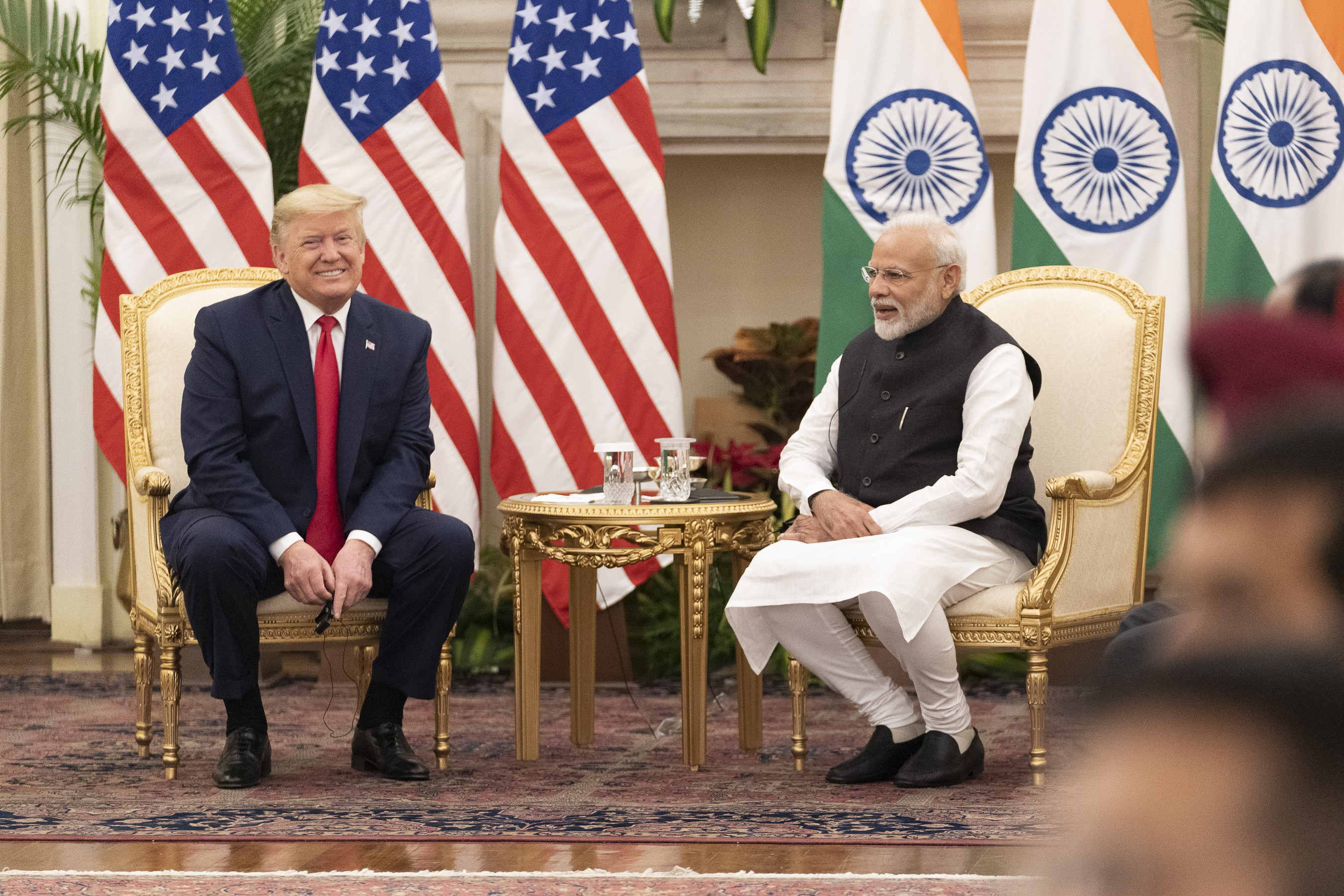 President Donald J. Trump and Indian Prime Minister Narendra Modi are joined by their delegations during bilateral discussions Tuesday, Feb. 25, 2020, at Hyderabad House in New Delhi. (Official White House Photo by Shealah Craighead)